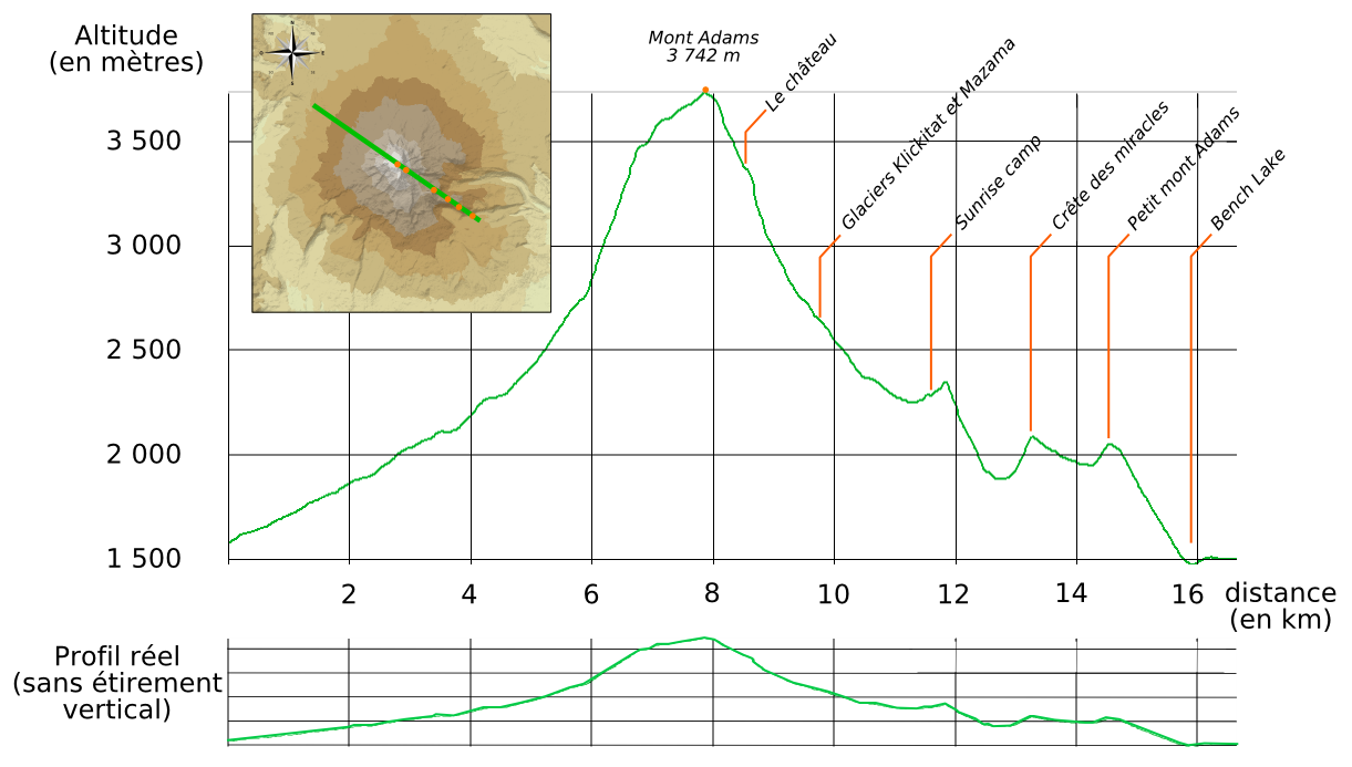 Orographic schema in French of Mount Adams